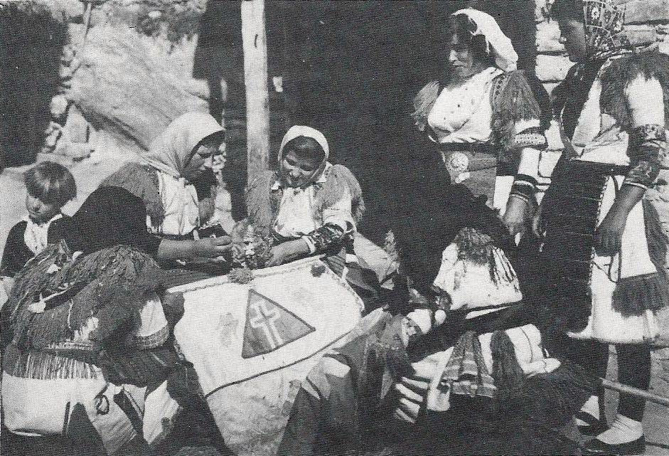 Wedding ceremony customs in the village of Veprčani in Mariovo region, Macedonia